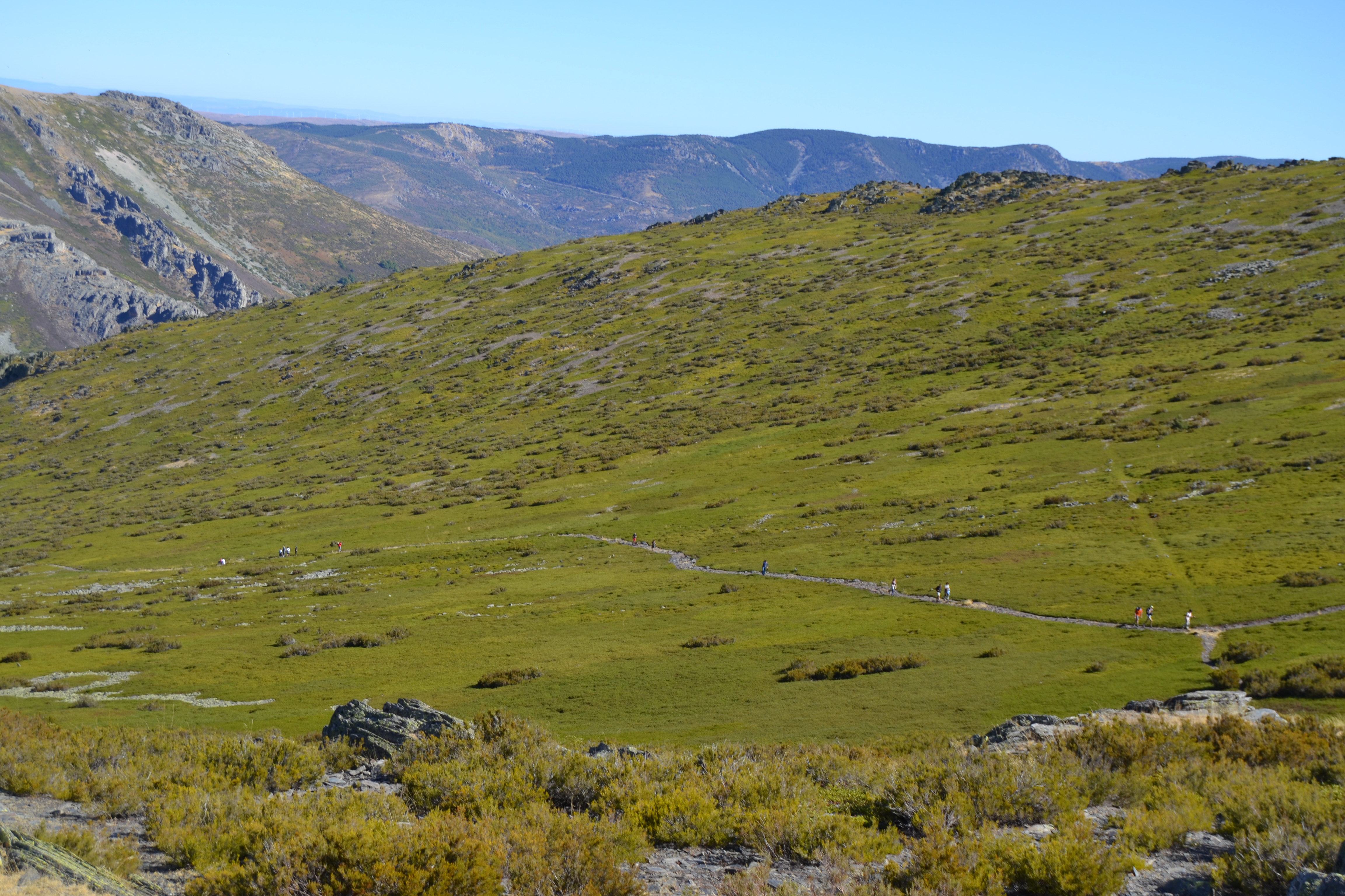 Cañamarejo in the northen slope of Ocejón and way down to Valverde de los Arroyos, Guadalajara, Spain. Photo taken from Ocejoncillo.